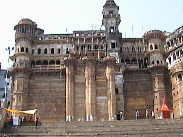 Hindu culture, have attributed supreme importance to the preservation of tradition Classical civilizations, and especially the Indian one, have attributed supreme importance to the preservation of tradition. Its central idea was that social institutions, scientific knowledge and technological applications need to use "heritage" as a "resource". Using contemporary language, we would say that ancient Indians considered, as social resources, both economic assets (like natural resources and their exploitation structure) and factors promoting social integration (like institutions for preserving knowledge and maintaining civil order). Ethics considered that what had been inherited should not be consumed, but should be handed over, possibly enriched, to successive generations. This was a moral imperative for all, except in the final life stage of sannyasa